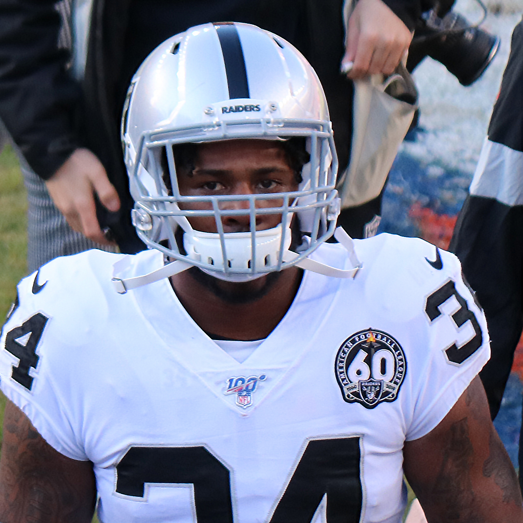 Rod Smith, a National Football League player.